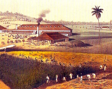 Los esclavos en el siglo XIX en Cuba